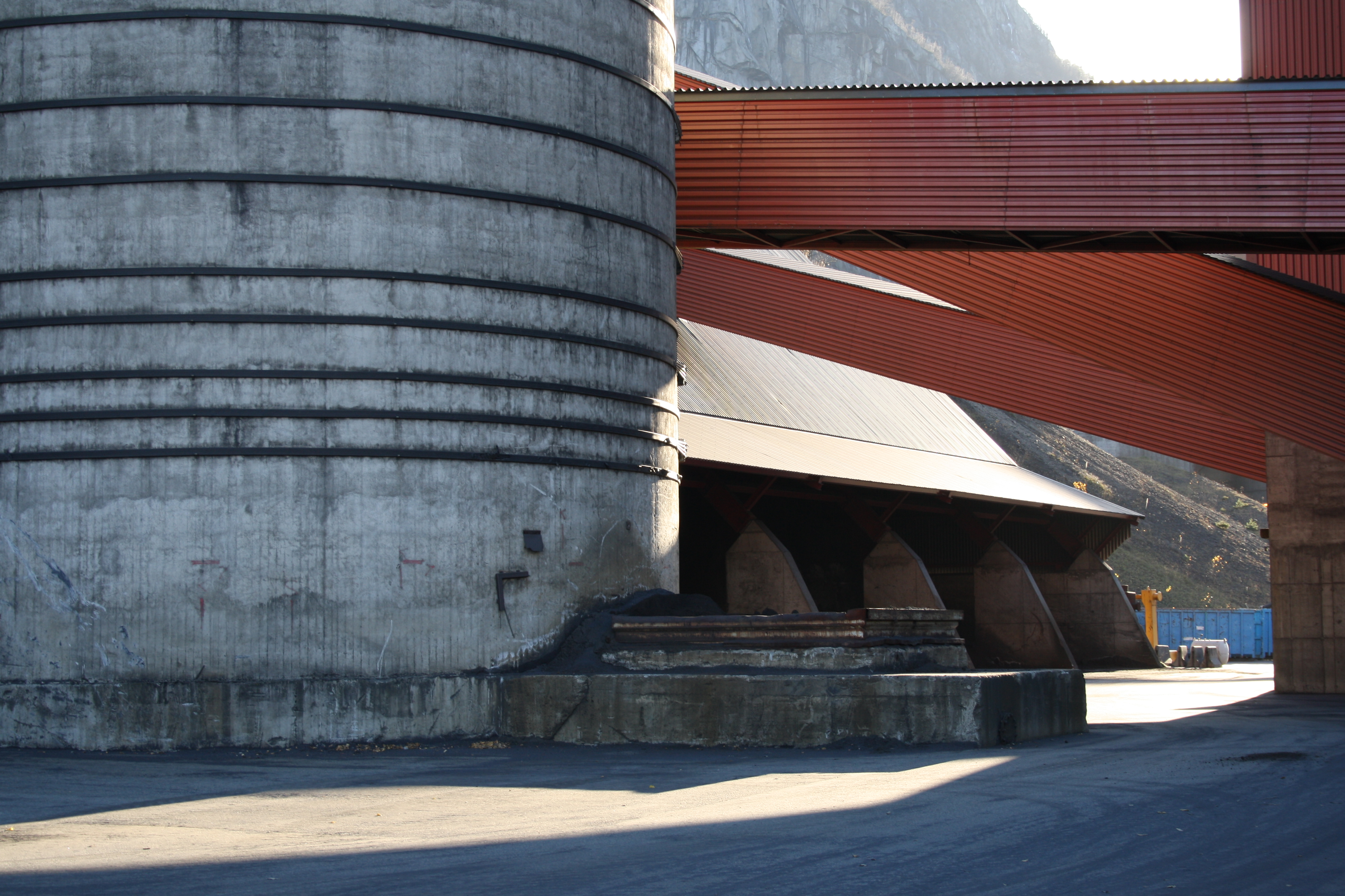 Tyssedal ilmenite upgrading facility, silos with titanium rich slag, conveyor belts and crushing plant.